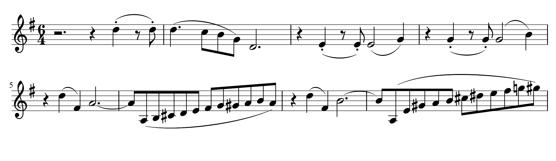 The opening eight measures of the violin part of the first movement of Brahms' Violin Sonata No. 1, Opus 78